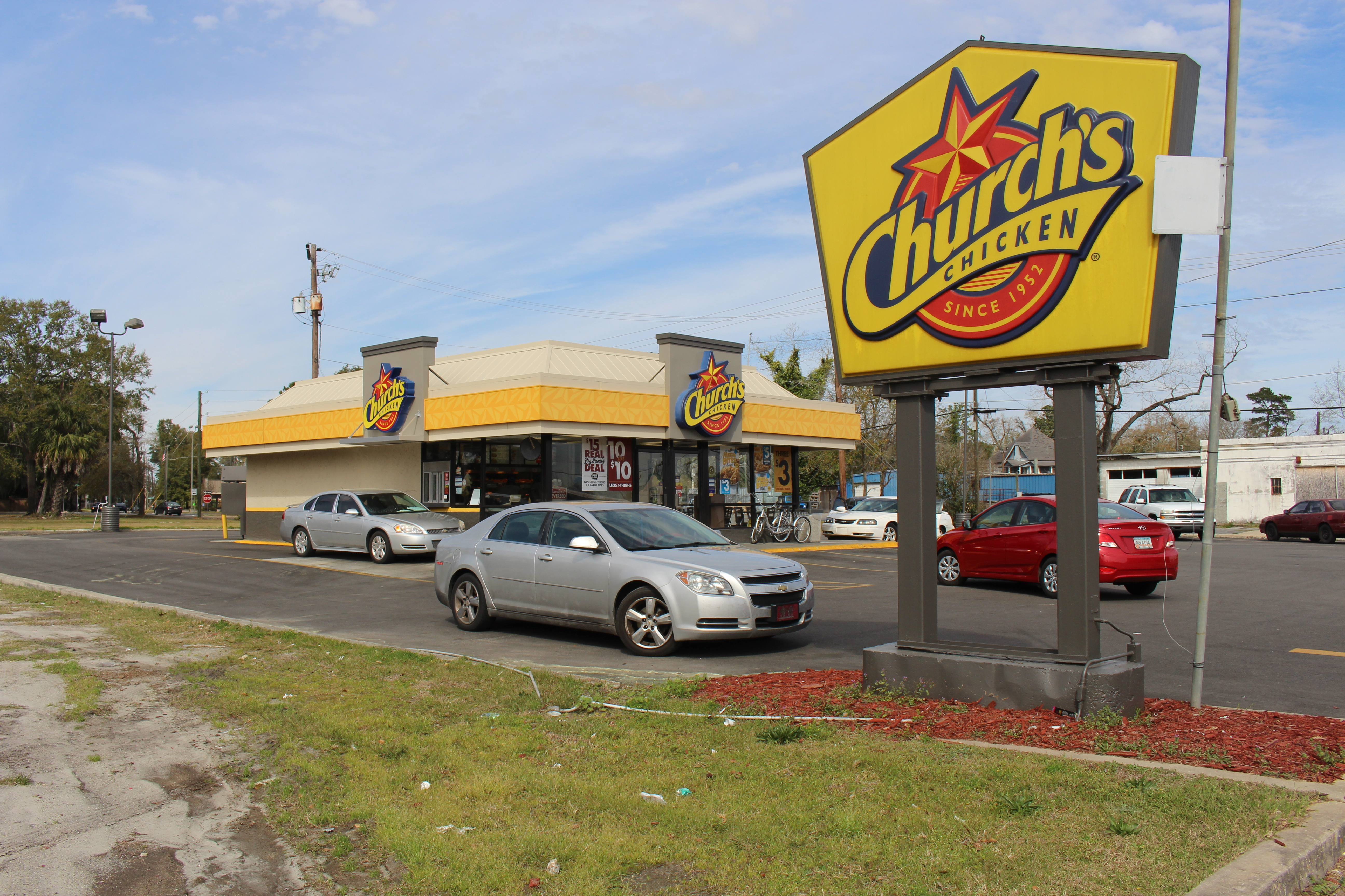 Valdosta, Lowndes County, Georgia